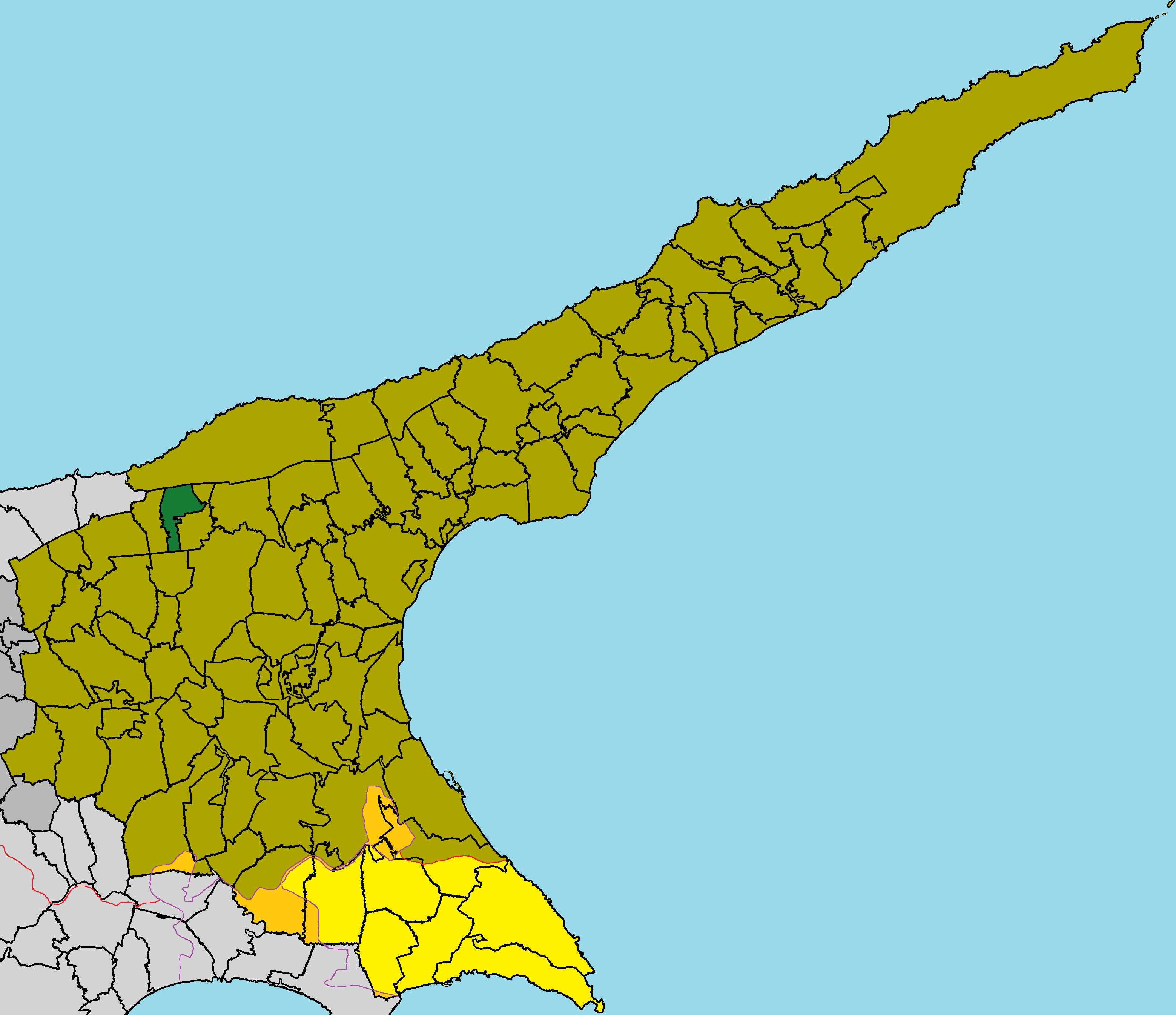 Melounta in Famagusta District (de jure).